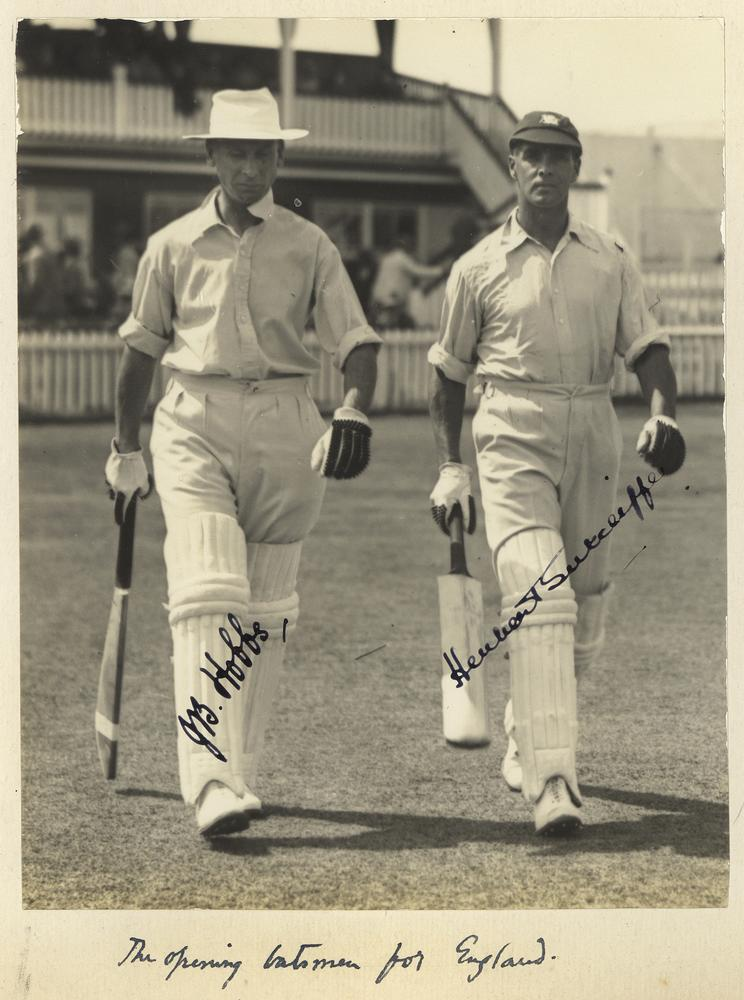 Autographed photograph of the English batsmen, Jack Hobbs and Herbert Sutcliffe, 1928. Hobbs and Sutcliffe were the opening batsmen for England in the cricket test match held in Brisbane in 1928.